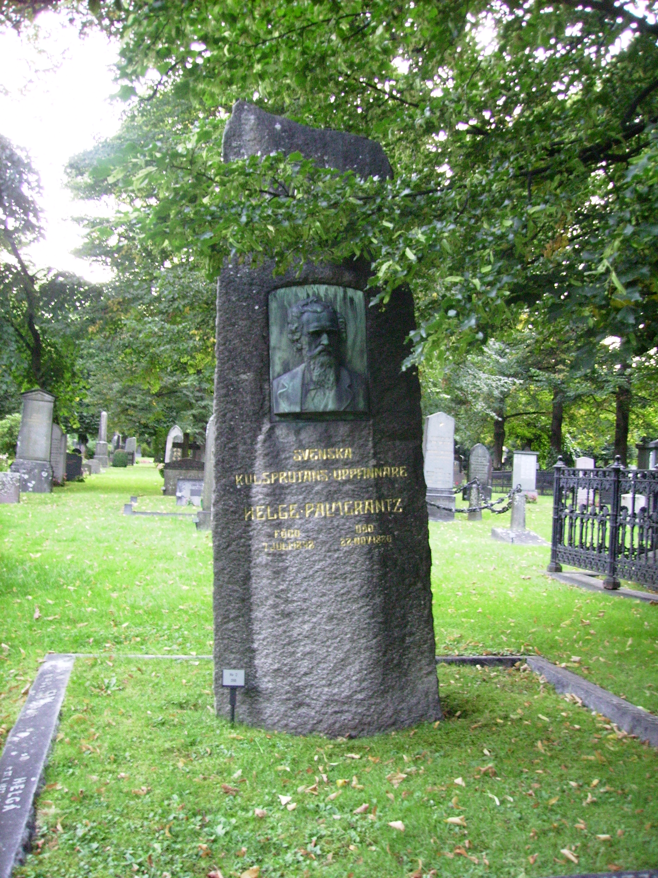 Picture of Helge Palmcrantz grave at Norra begravningsplatsen in Stockholm